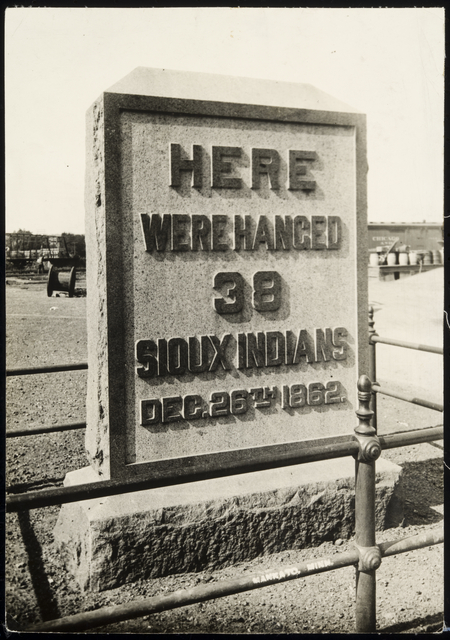 Scan from original